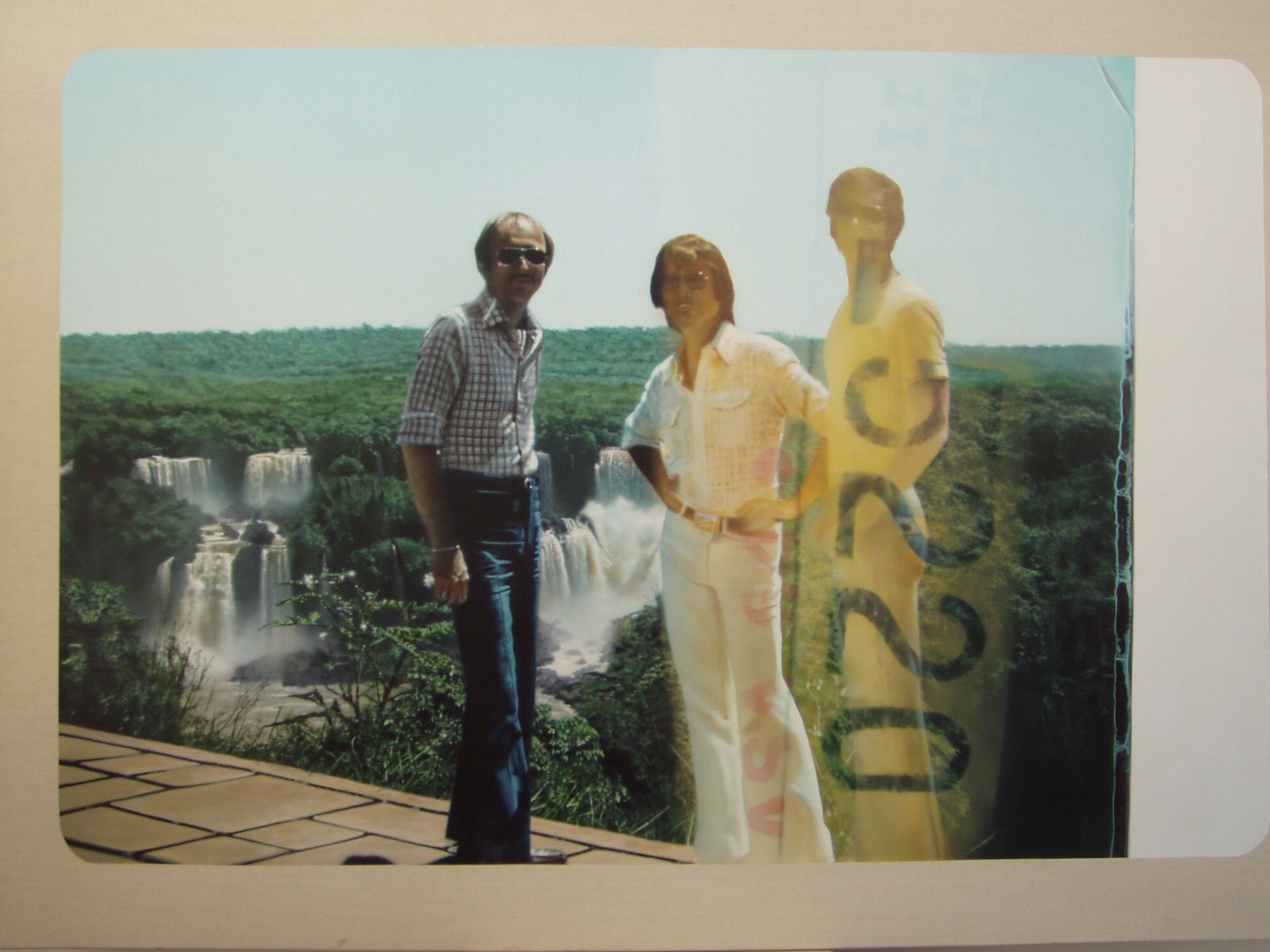 5' x 7' painting, from Ruined Slide Series. Exhibited at the Strasbourg Museum of Contemporary Art in 2003